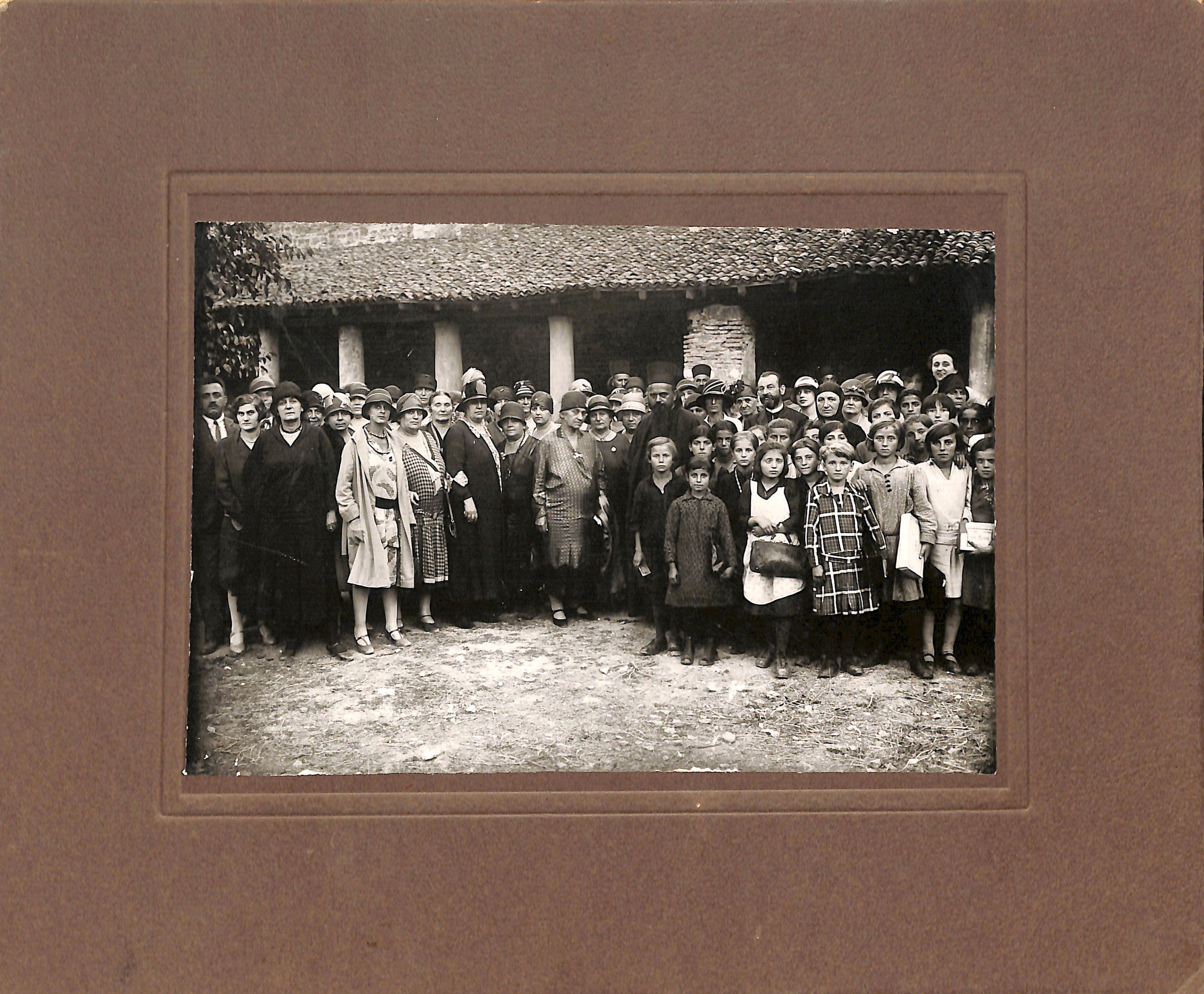 Bishop Nikolaj Velimirović in Ohrid with the company of the princess Ljubica from Pančevo